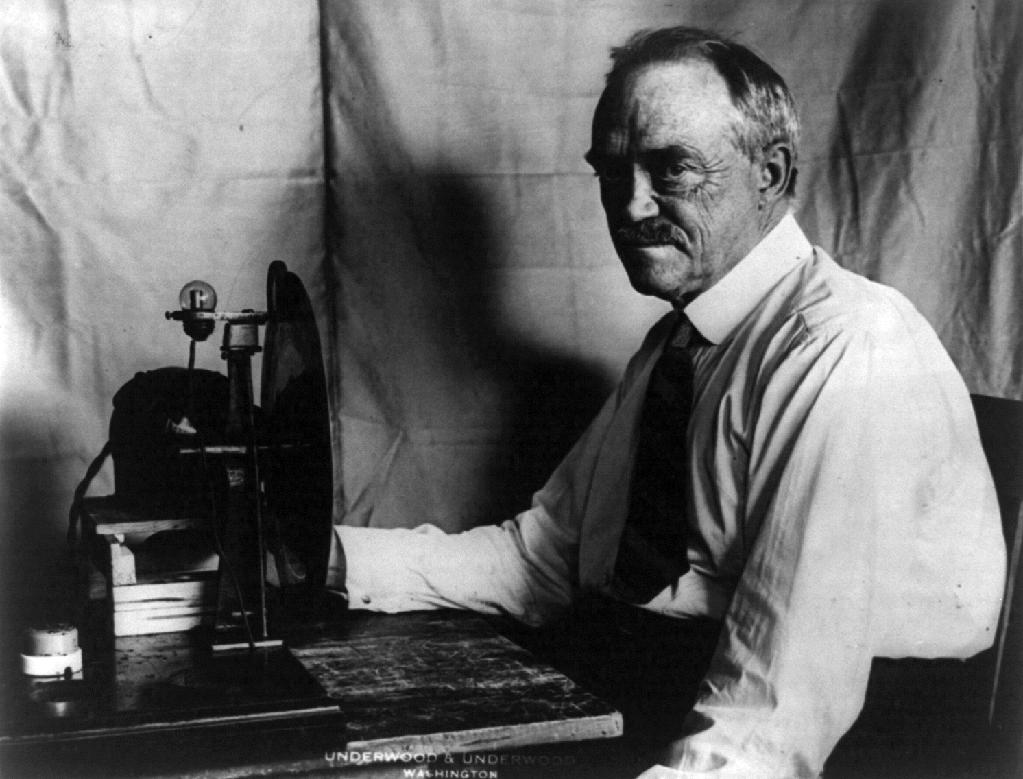 Charles Francis Jenkins, American inventor